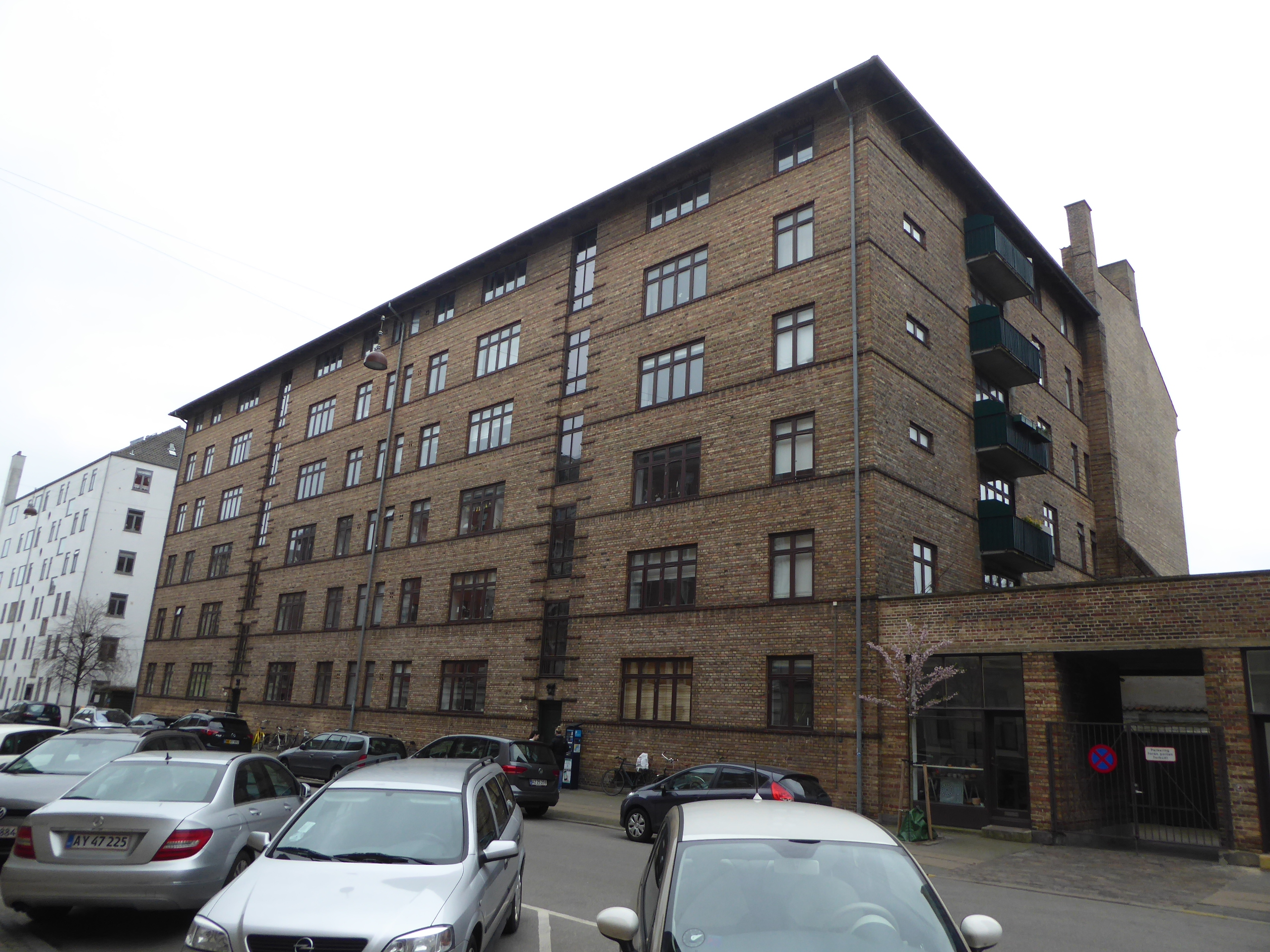 The apartment building Kastelshaven at Kastelsvej in Østerbro in Copenhagen.